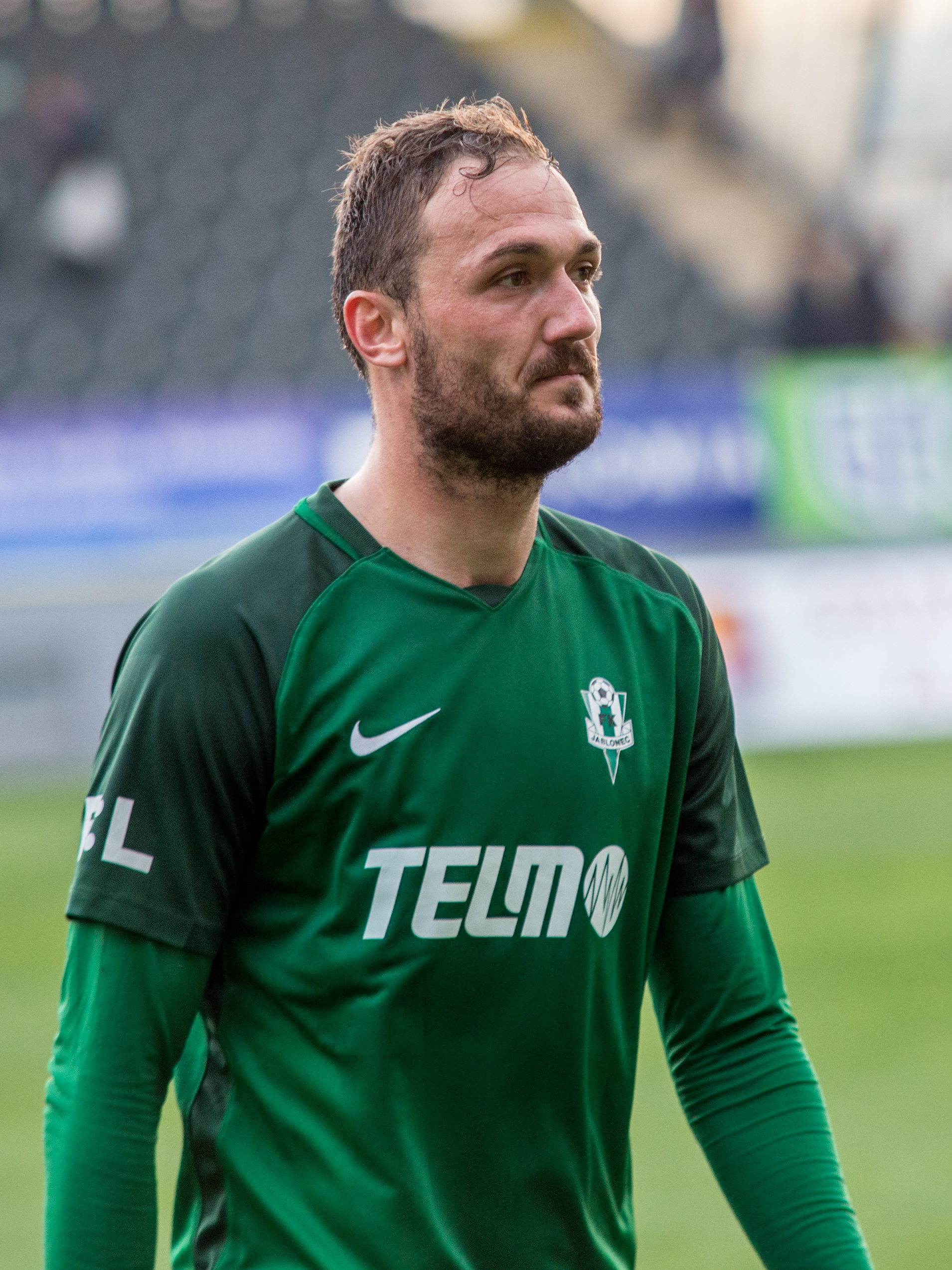 Martin Doležal at the Czech First League association football match with FK Jablonec v FC Baník Ostrava Personality rights warningAlthough this work is freely licensed or in the public domain, the person(s) shown may have rights that legally restrict certain re-uses unless those depicted consent to such uses. In these cases, a model release or other evidence of consent could protect you from infringement claims.